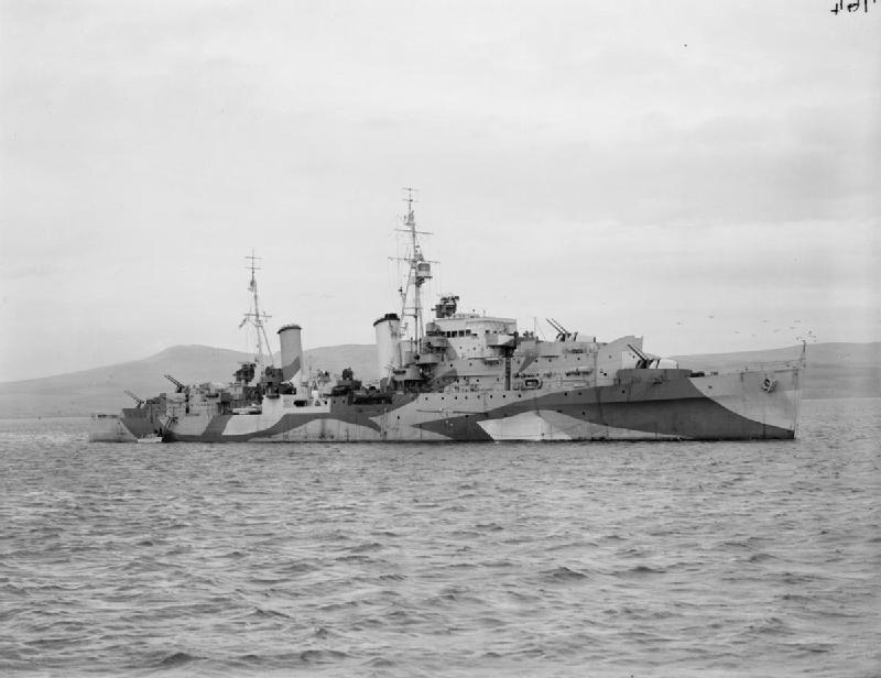 Photograph of British light cruiser HMS Scylla at anchor on the Clyde.